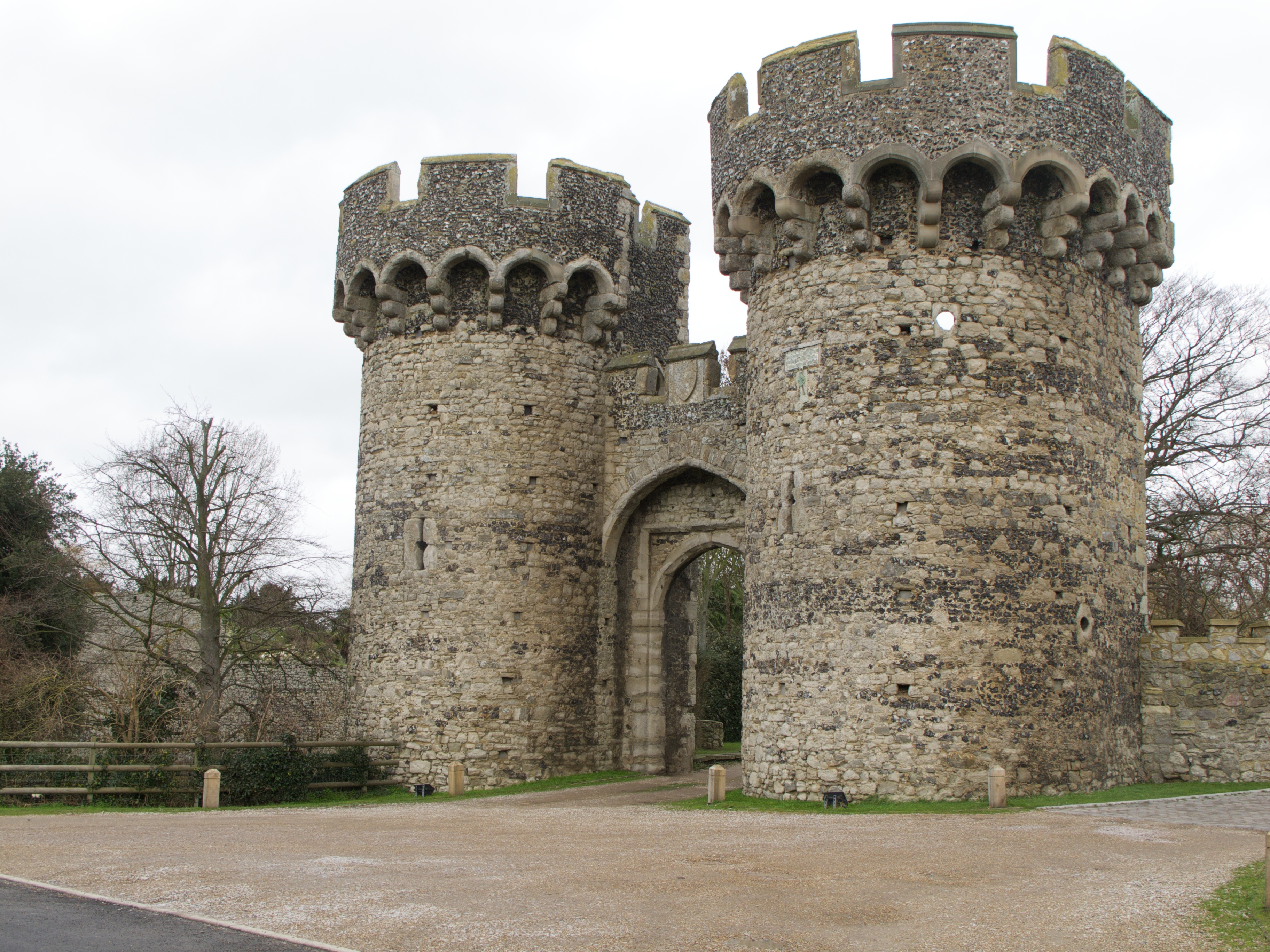 Cooling Castle's entrance. The site also has other remains of walls and earthworks.